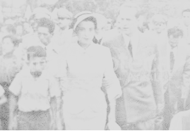 Mr y Mrs. Arbenz